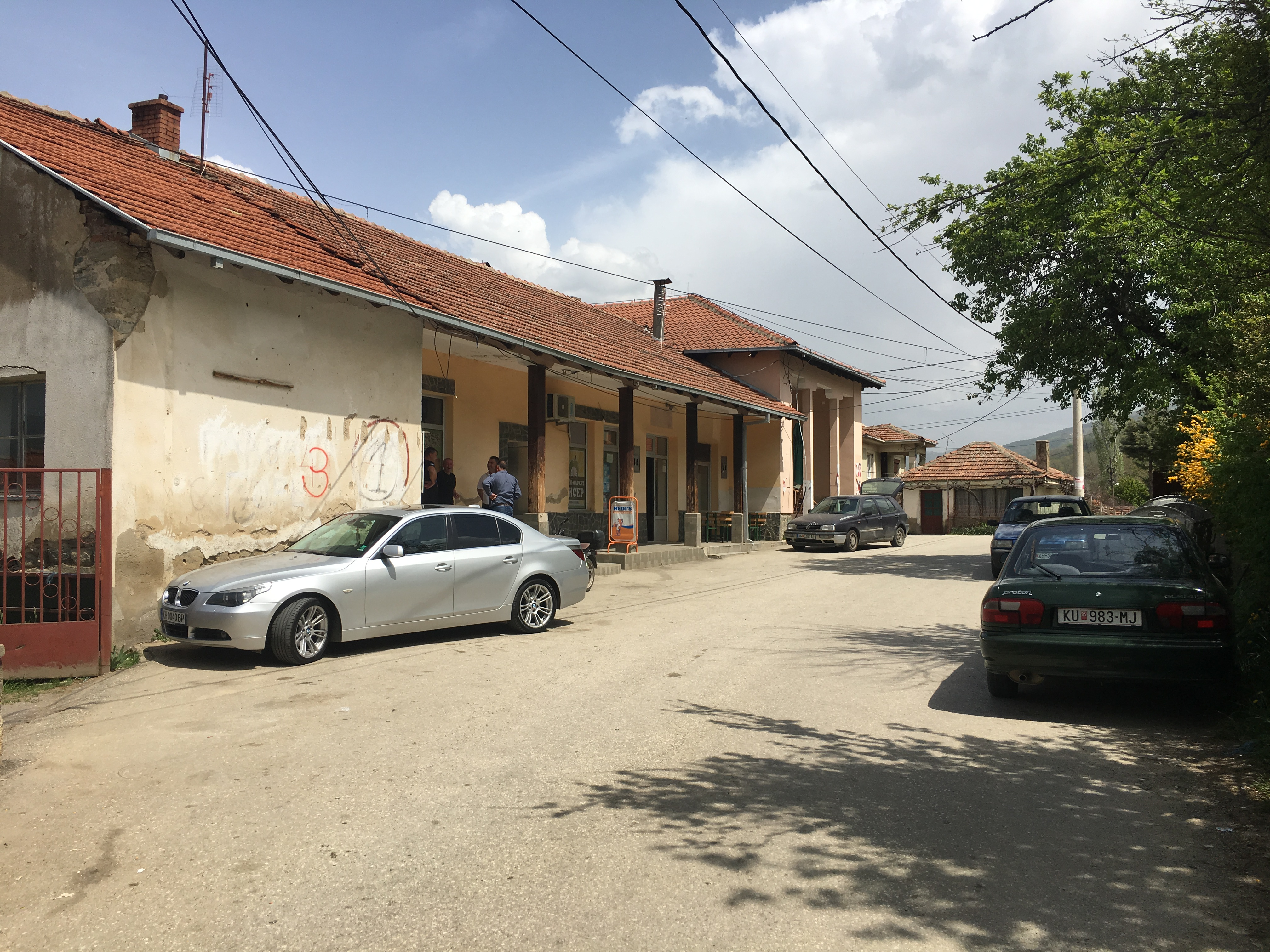 A street through the village of Konopnica